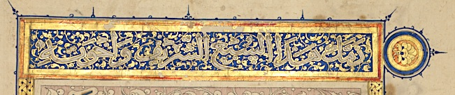 Volume seven of a seven-volume Qur'an commissioned by Rukn al-Dīn Baybars, later Sultan Baybars II